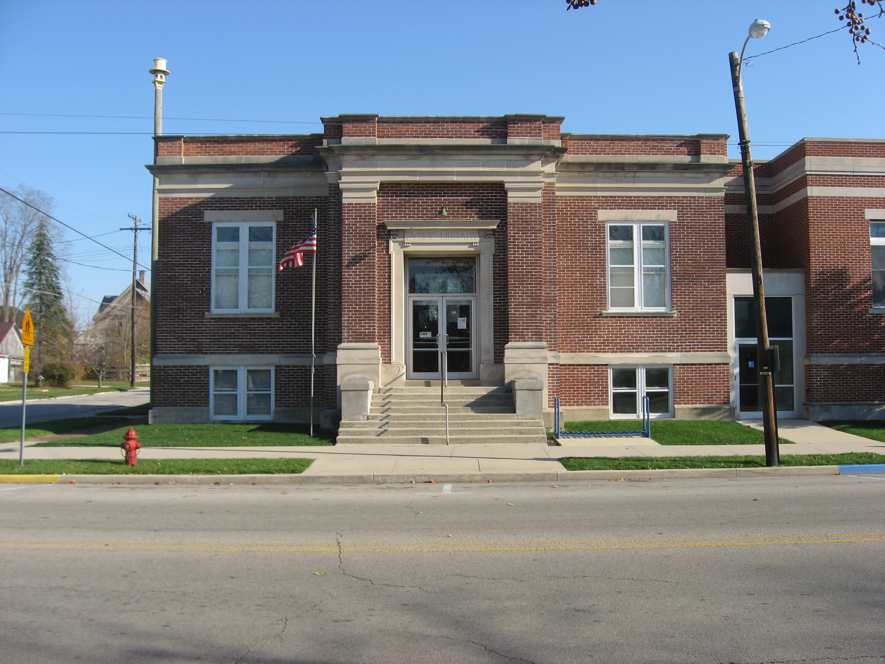 Front of the Montpelier Carnegie Library, located at 301 S. Main Street in Montpelier, Indiana, United States. It is listed on the National Register of Historic Places.